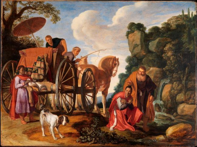 The Baptism of the Eunuch, Pieter Lastman, 1623, oil on panel, 85 by 115 cm, Staatliche Kunsthalle, Karlsruhe